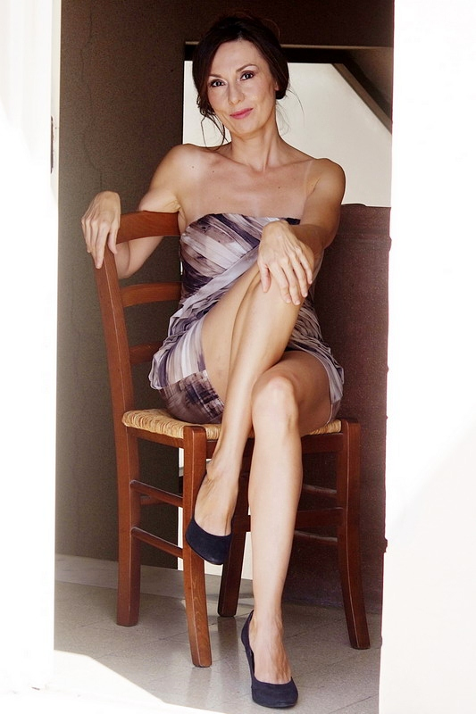 Full body. Simona Caparrini